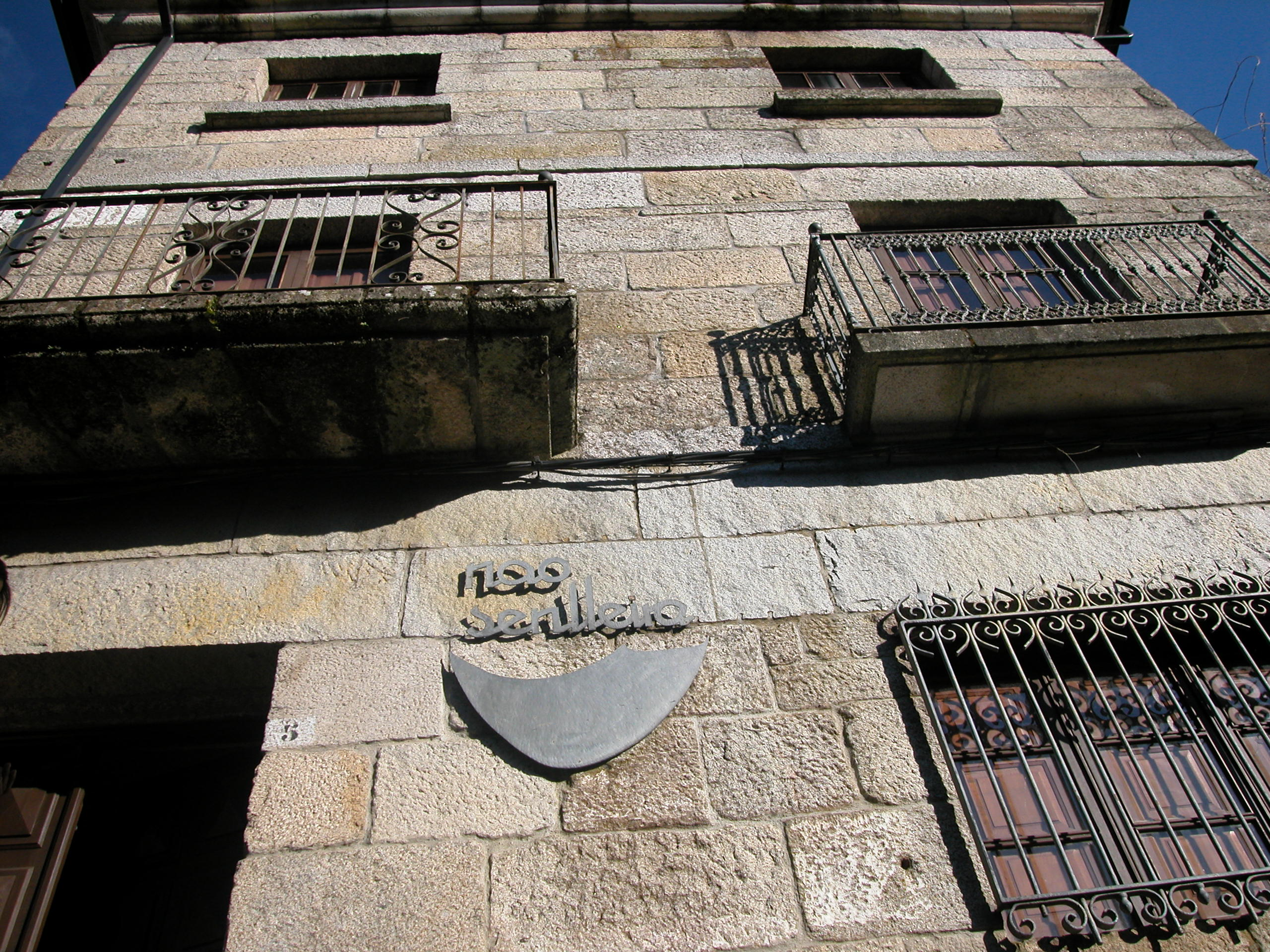 Ribadavia - Ourense - Galicia - Spain